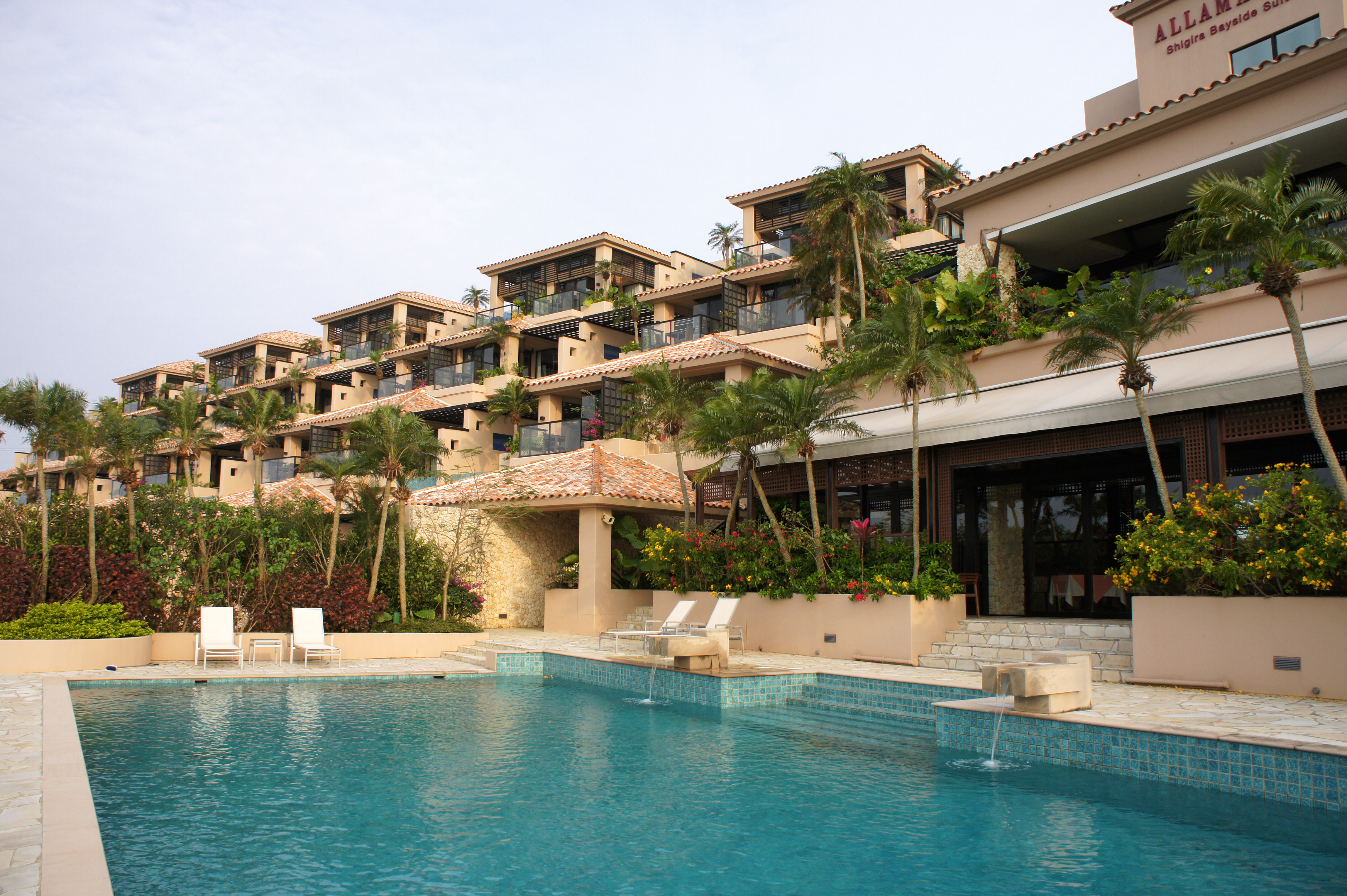 Shigira Bayside Suite ALLAMANDA in Miyakojima, Okinawa Prefecture, Japan.